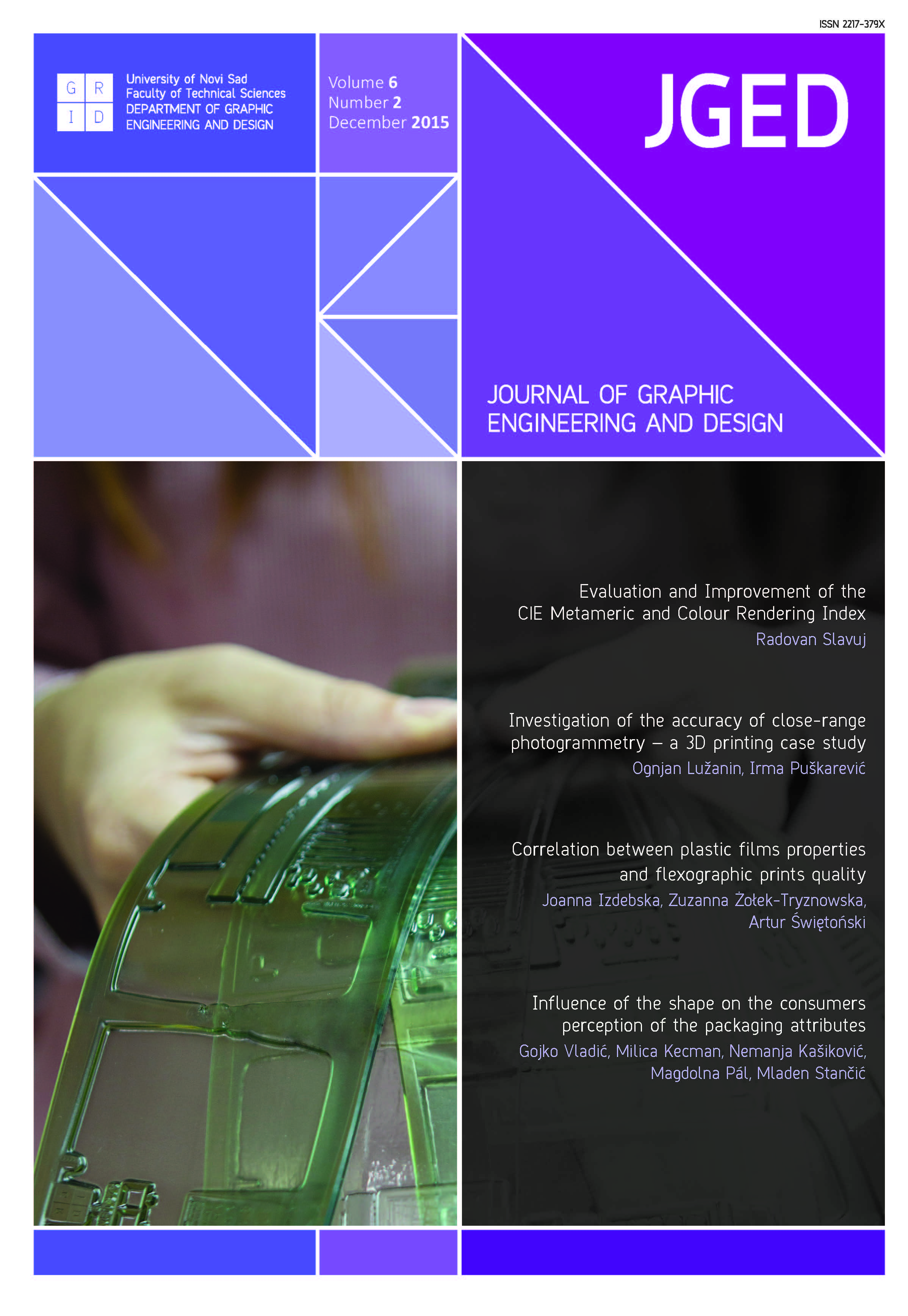 Journal cover